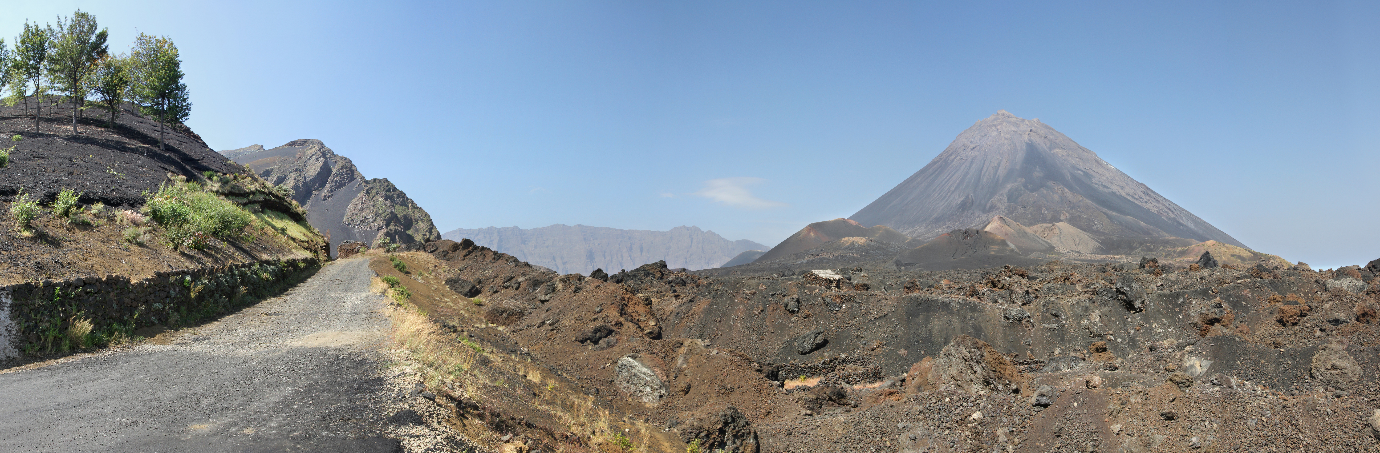 A road leading to Fogo National Park (Parque Natural do Fogo) in 2010 December. Pico do Fogo (2,829 m) on the right is a stratovolcano.